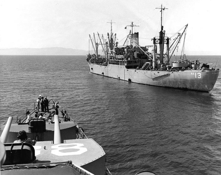 The U.S. Navy attack cargo ship USS Titania (AKA-13) in Wonsan harbour, North Korea, circa 10-13 September 1951, seen from USS Floyd B. Parks (DD-884), which is coming alongside to take on fuel.